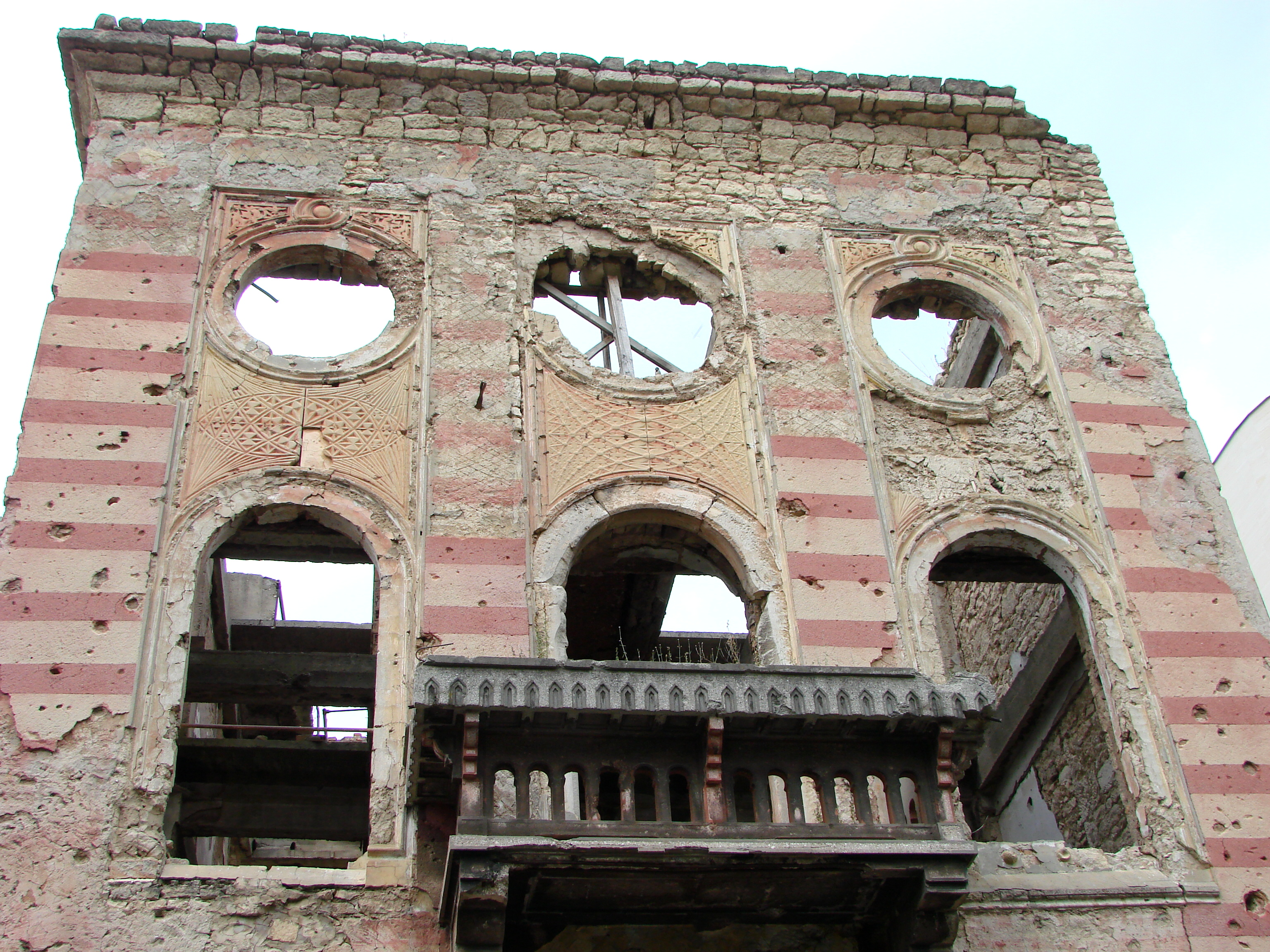 War-ruined building in Mostar, Bosnia and Herzegovina. July 2007.